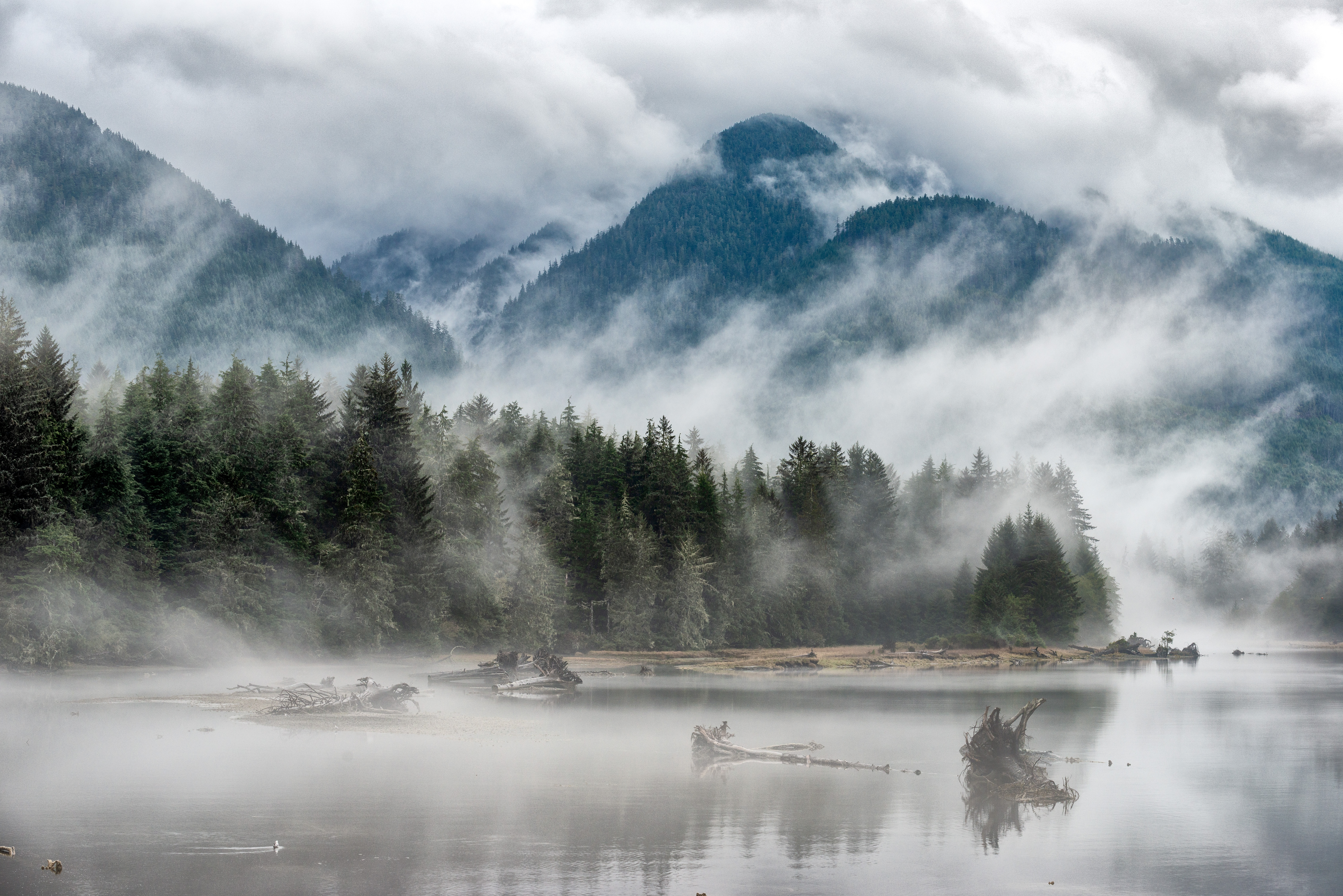 Looking northeast across the San Juan River on Vancouver Island, British Columbia.